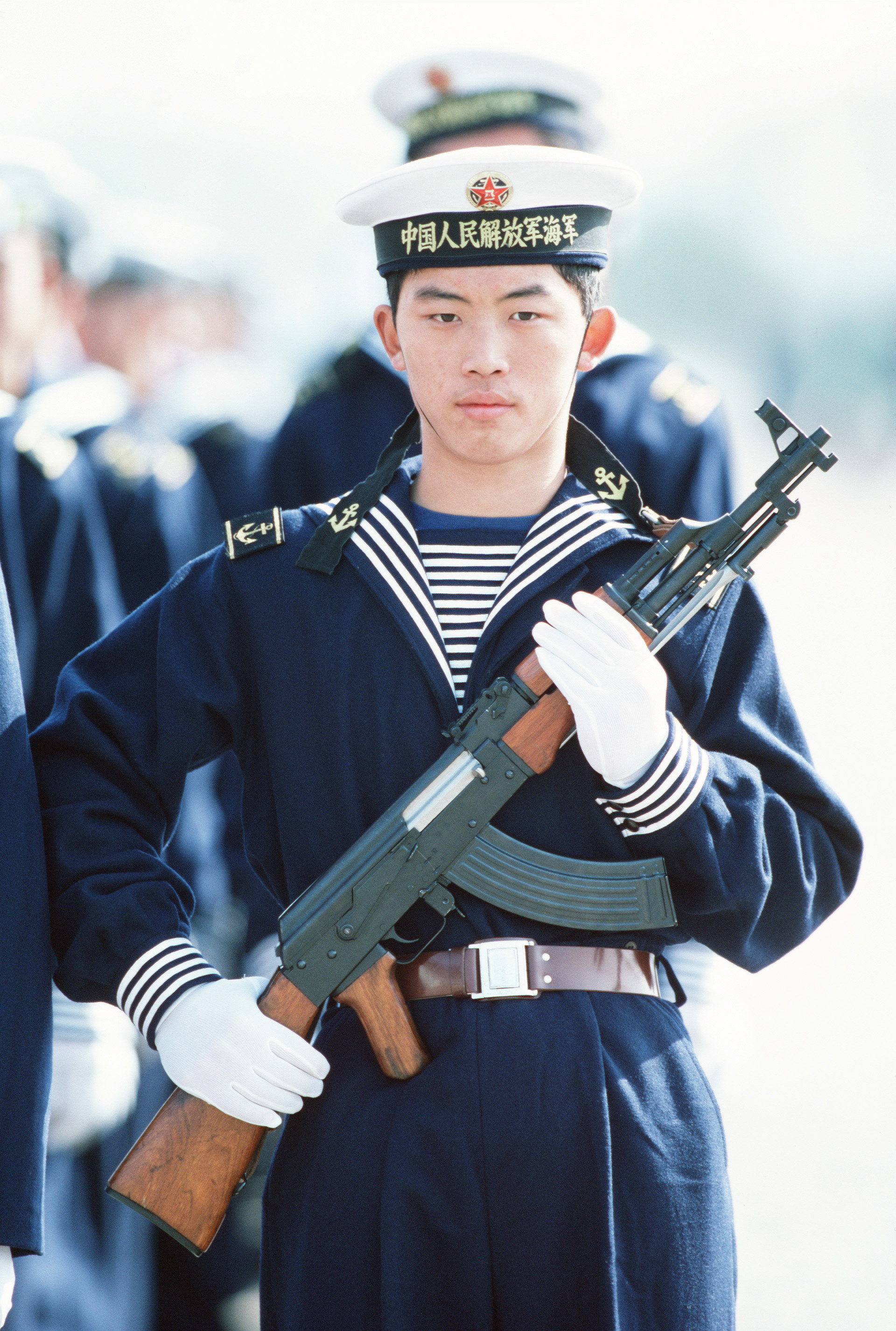 A Chinese sailor, armed with a Type 56 assault rifle, stands watch at a welcoming ceremony given in honor of the first visit by US Navy (USN) ships to visit China in 40 years. (Released to Public) DoD photo by: PH1 CHARLES L. MUSSI Date Shot: 5 Nov 1986